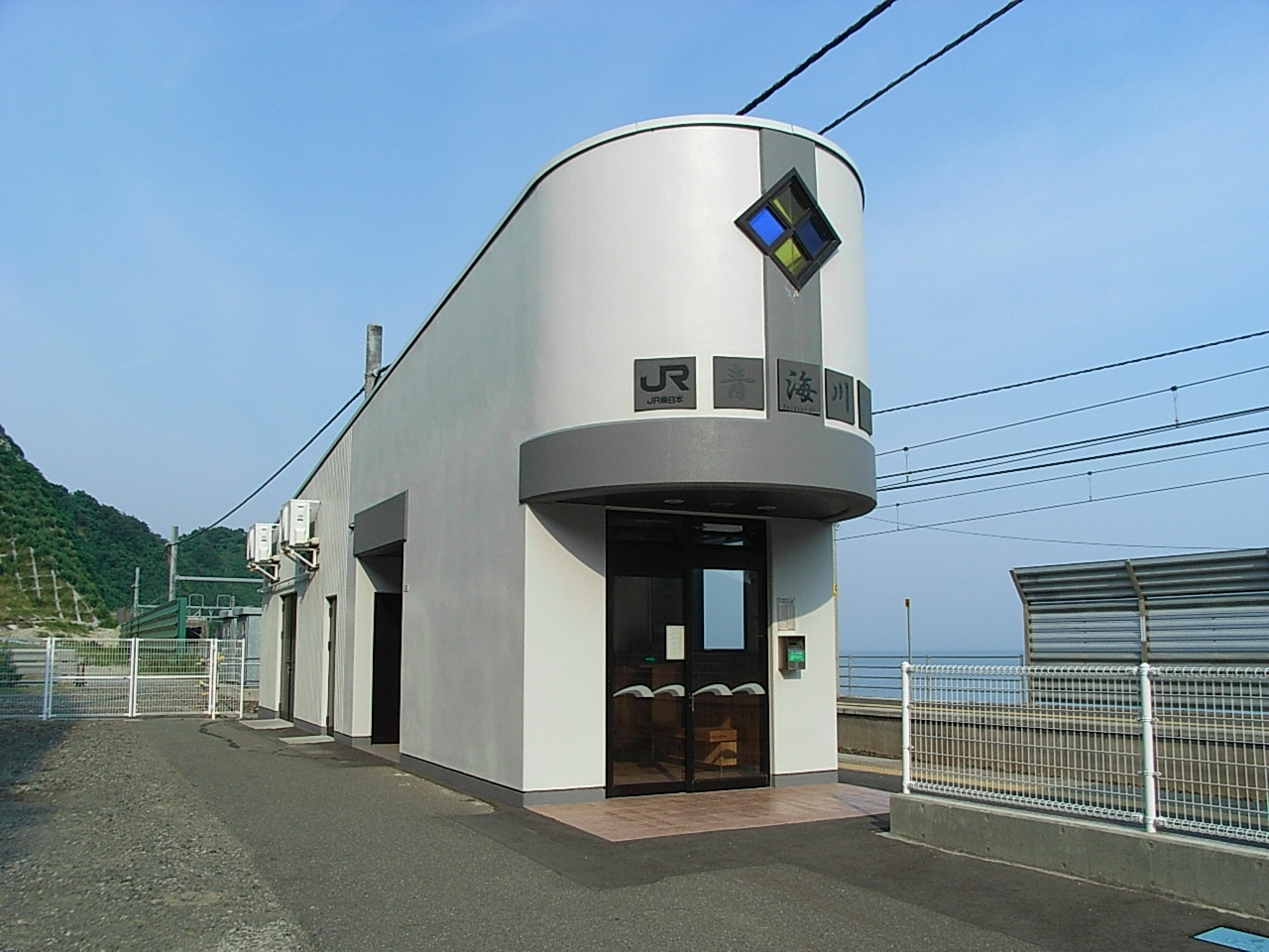 Omigawa Station on JR Shin-etsu Line. (Omigawa,Kashiwazaki-shi,Niigata-ken,JAPAN)